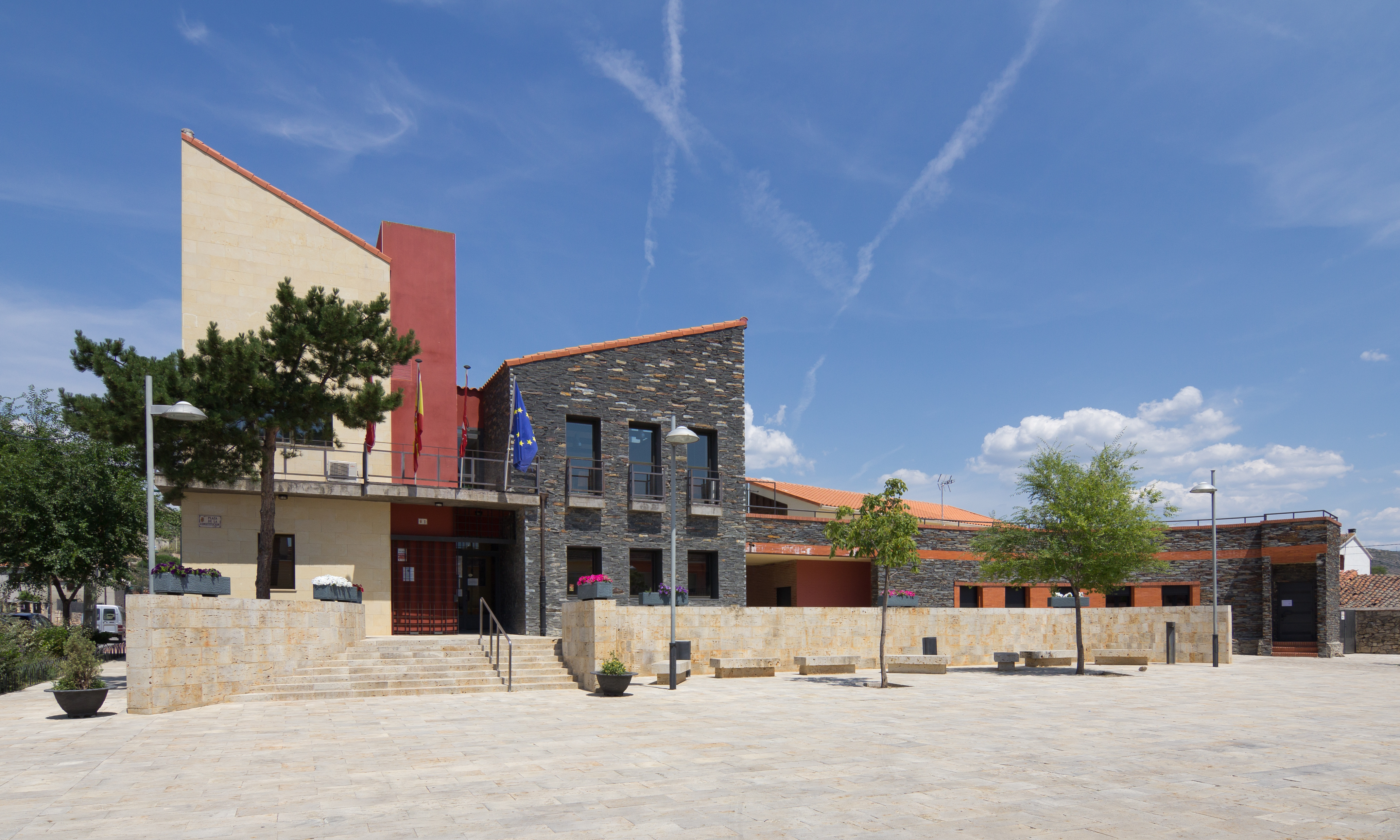 Town hall of Patones, Community of Madrid, Spain.